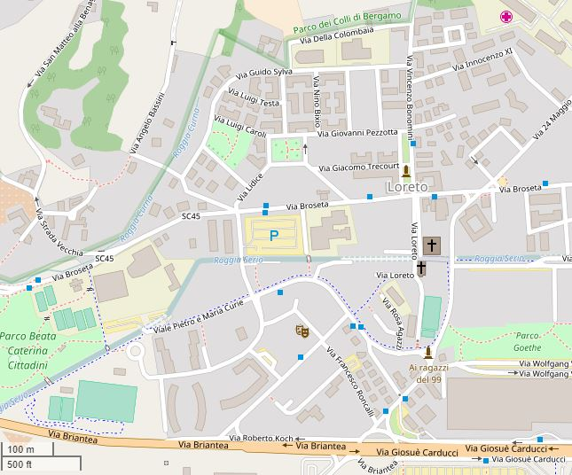 Bergamo, Loreto This map may be incomplete, and may contain errors. Don't rely solely on it for navigation.